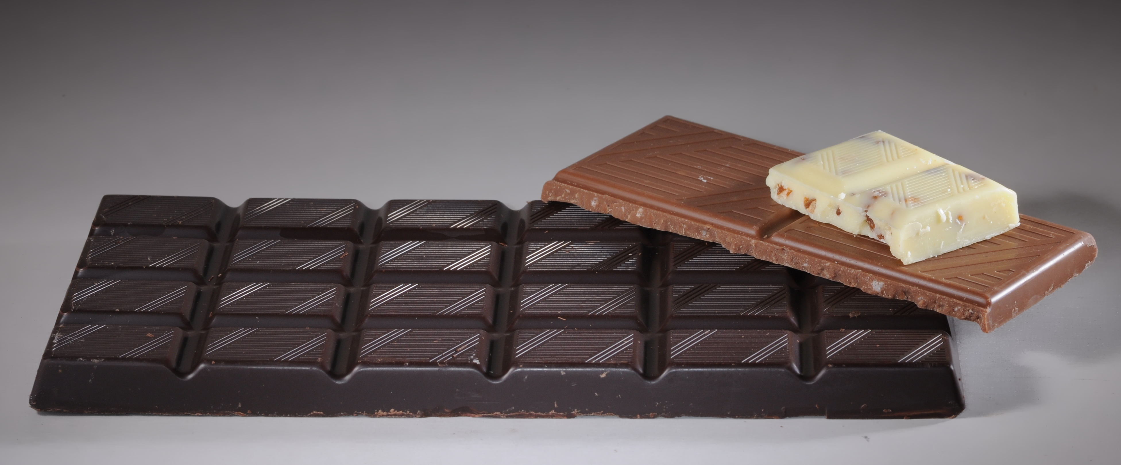 Swiss chocolate: Black, brown (with Caramel and Pear), and white (with hazelnut)